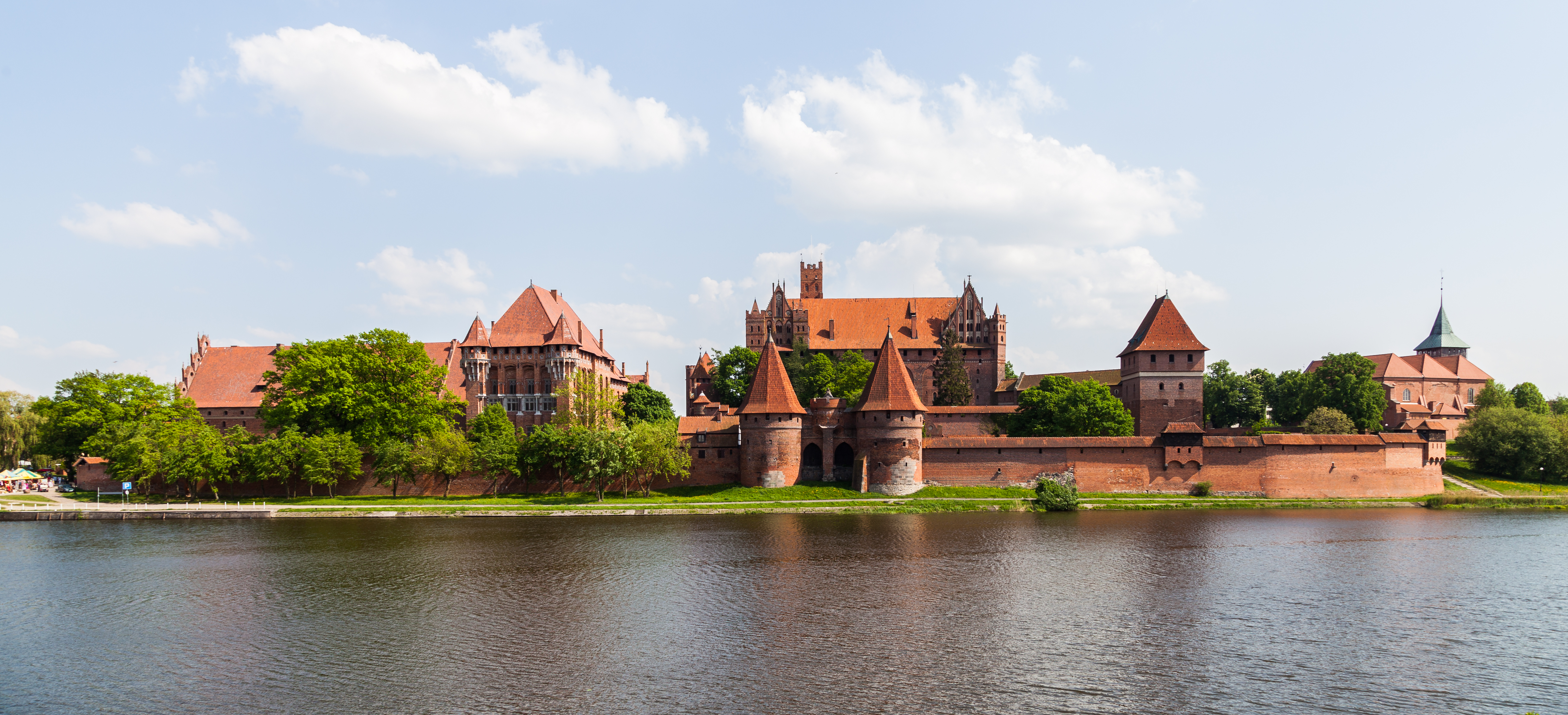 Malbork Castle, Poland